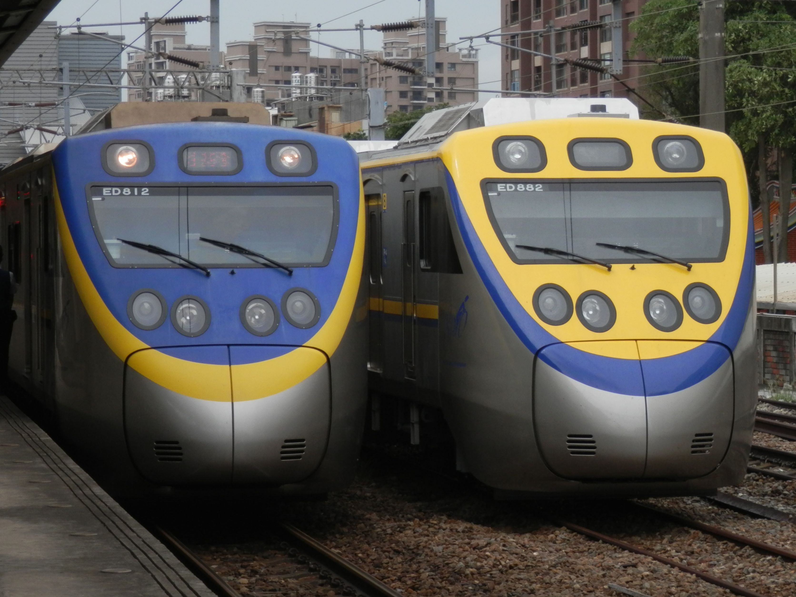 TRA EMU800 (Right: ED882 manufactured in 2016, Left: prototype vehicle ED812) at Zhubei Station